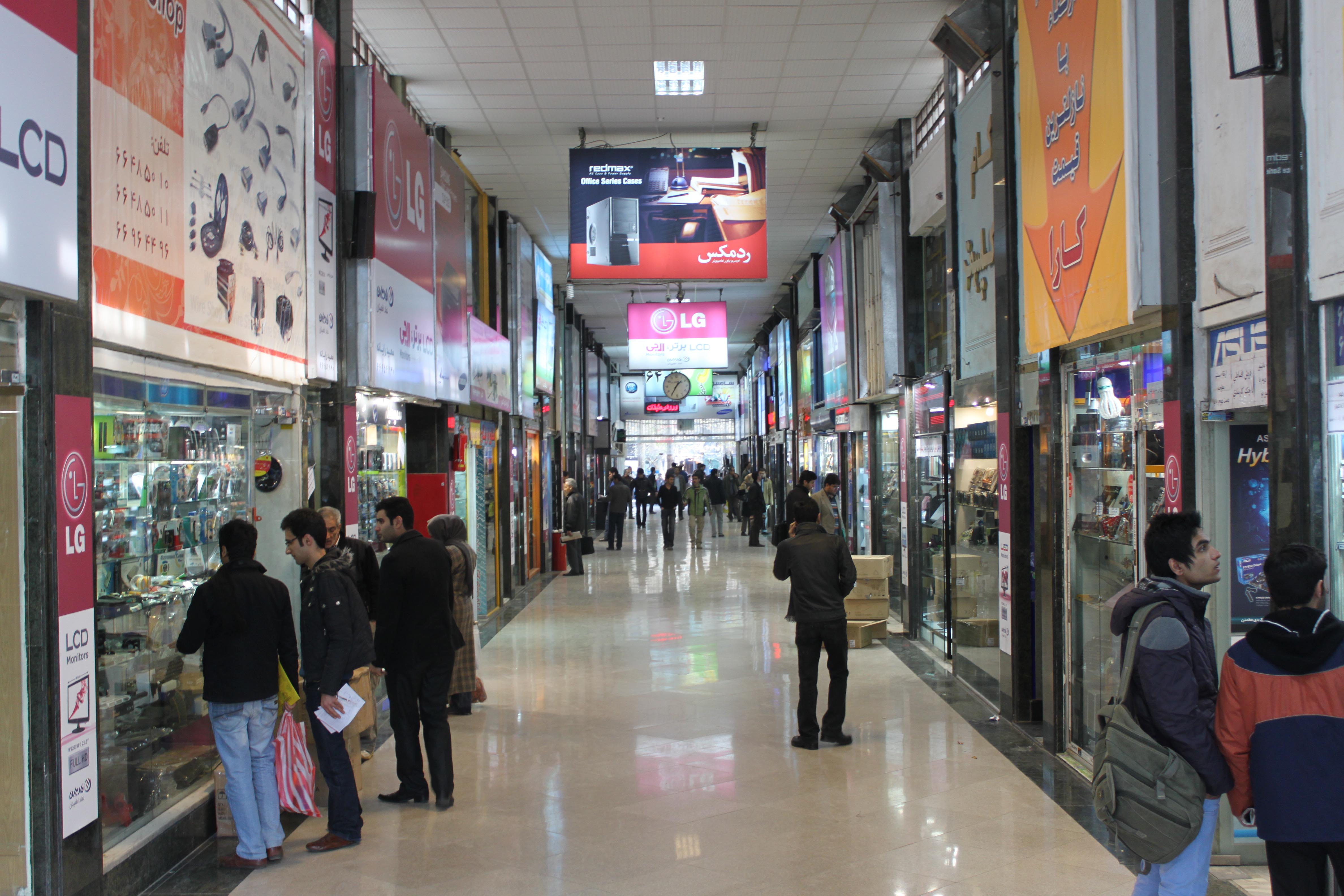 Bazarreza Computer Center